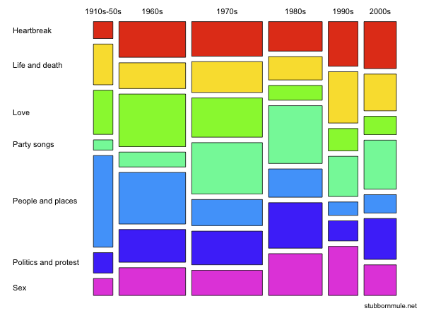 Mosaic plot showing cross-sectional distribution through time of different musical themes in the Guardian's list "1000 songs to hear before you die". This chart first appeared in the blog post "Love is Old-Fashioned, Sex Less So" on A Stubborn Mule's Perspective.